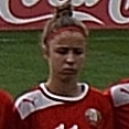 2015 FIFA Women's World Cup qualification – UEFA Group 6 match Turkey vs Belarus on September 17, 2014